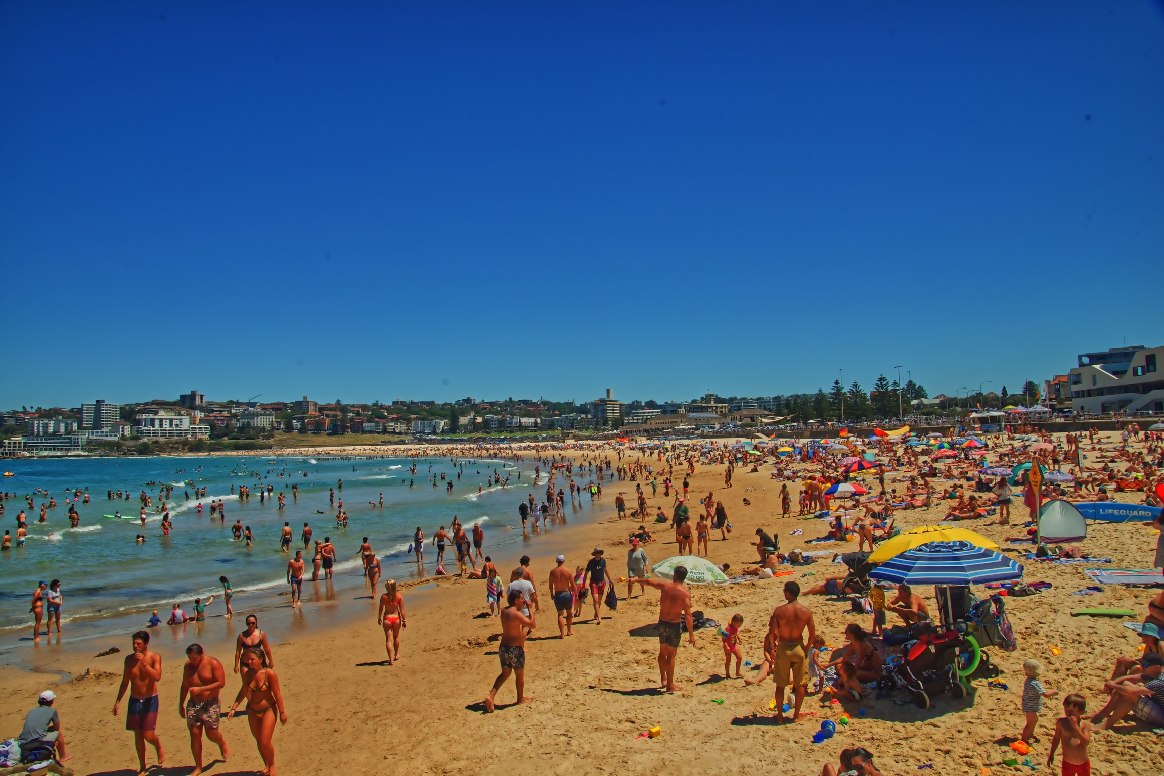 The crowded Bondi beach